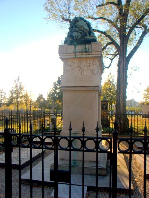 grave of Gerhard von Scharnhorst on Invalidenfriedhof in Berlin-Mitte